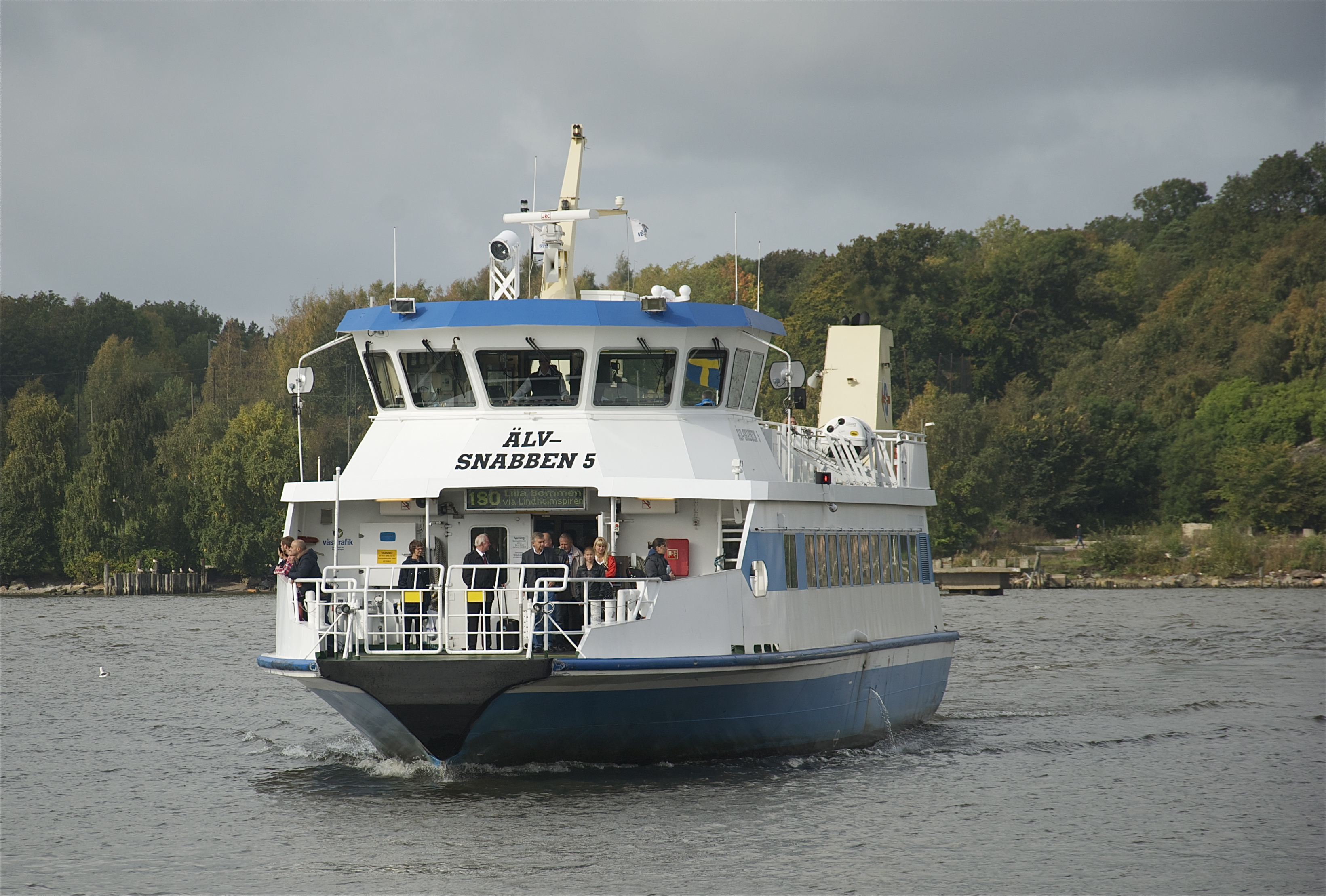 Älv-Snabben 5.